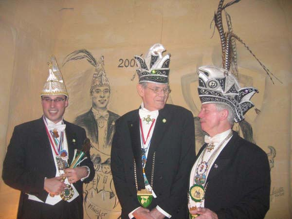 Foto van Pantheon